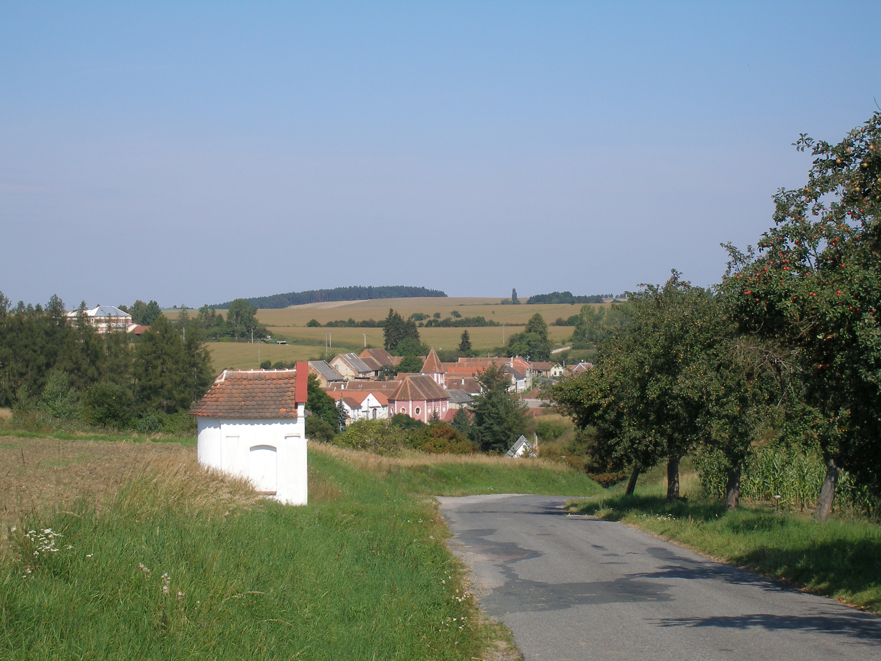 Village Lubnice in Moravia (Znojmo district), the general view from the road to Uherčice (Znojmo district)